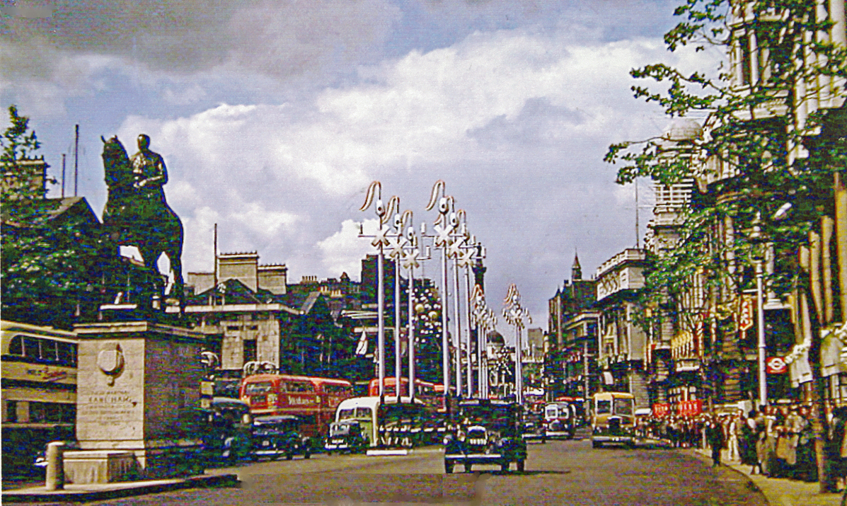 Whitehall, just before the 1953 Coronation. View northwards from Horse Guards Avenue towards Trafalgar Square, with the equestrian statue of Earl Haig on the left. Decorations are already going up for the Queen's Coronation six days later. [With apologies for a slide taken nearly 60 years ago].